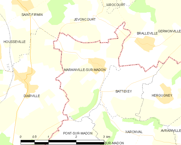 Map of French municipality Marainville-sur-Madon